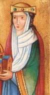 Theophanu Skleros